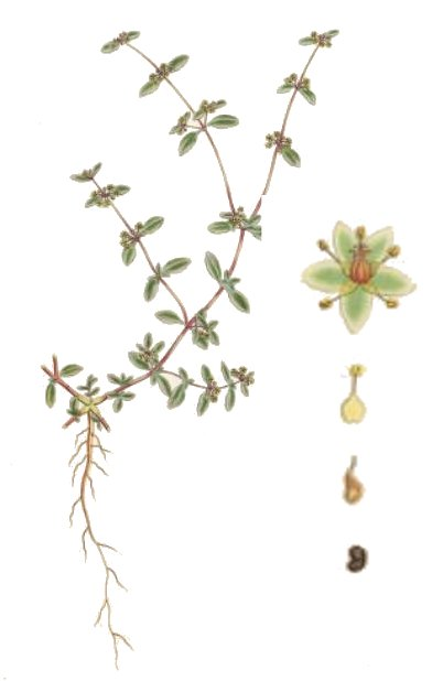 Illustration of Gisekia pharnacioides modificated by Abalg